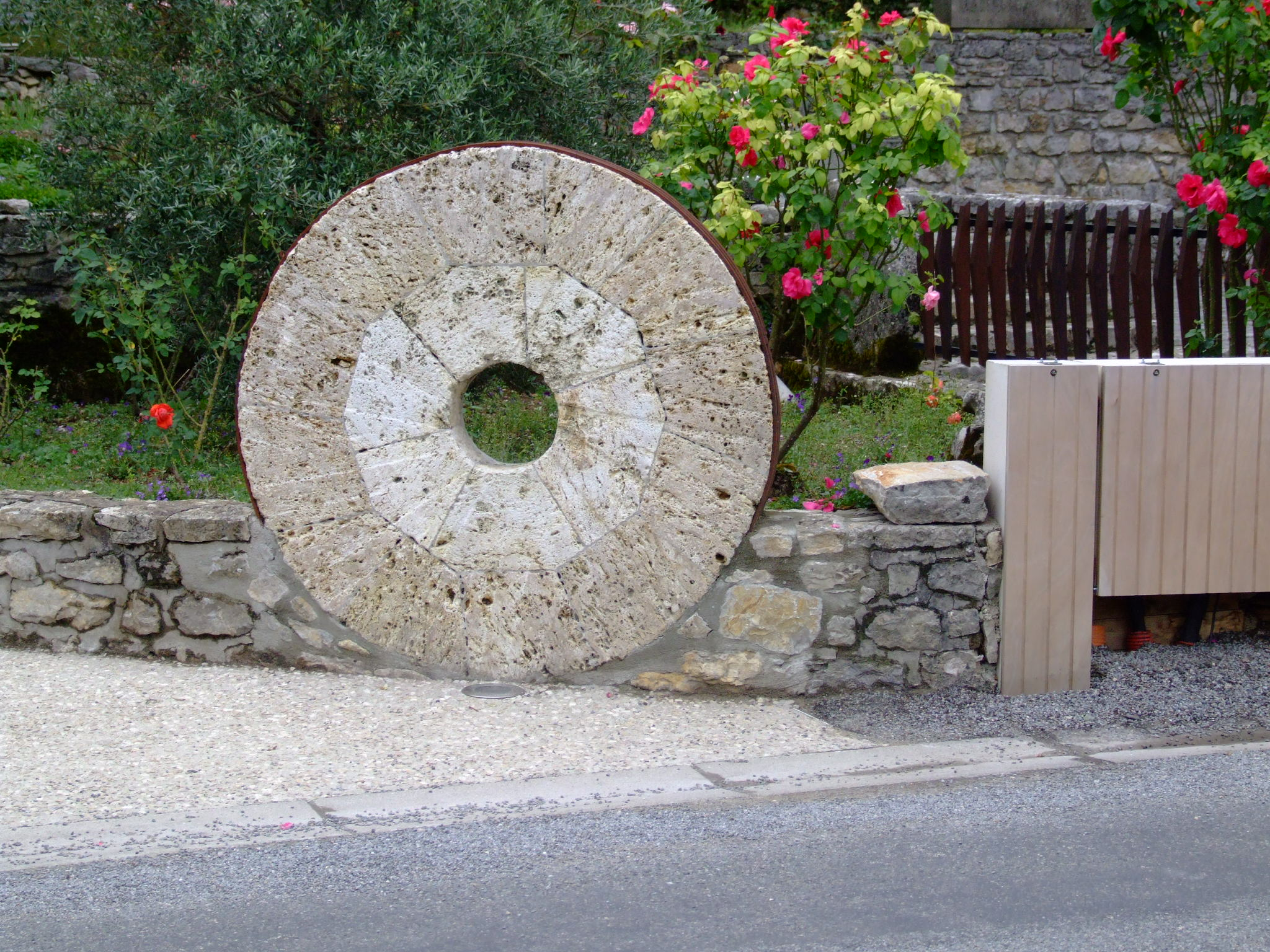 Cabrerets (Lot), France, lies at the confluence of the rivers Sagne and Célé, at the foot of the Rochecourbe cliffs.. Redundant mill stone set in garden wall. - Google Maps - Google Earth